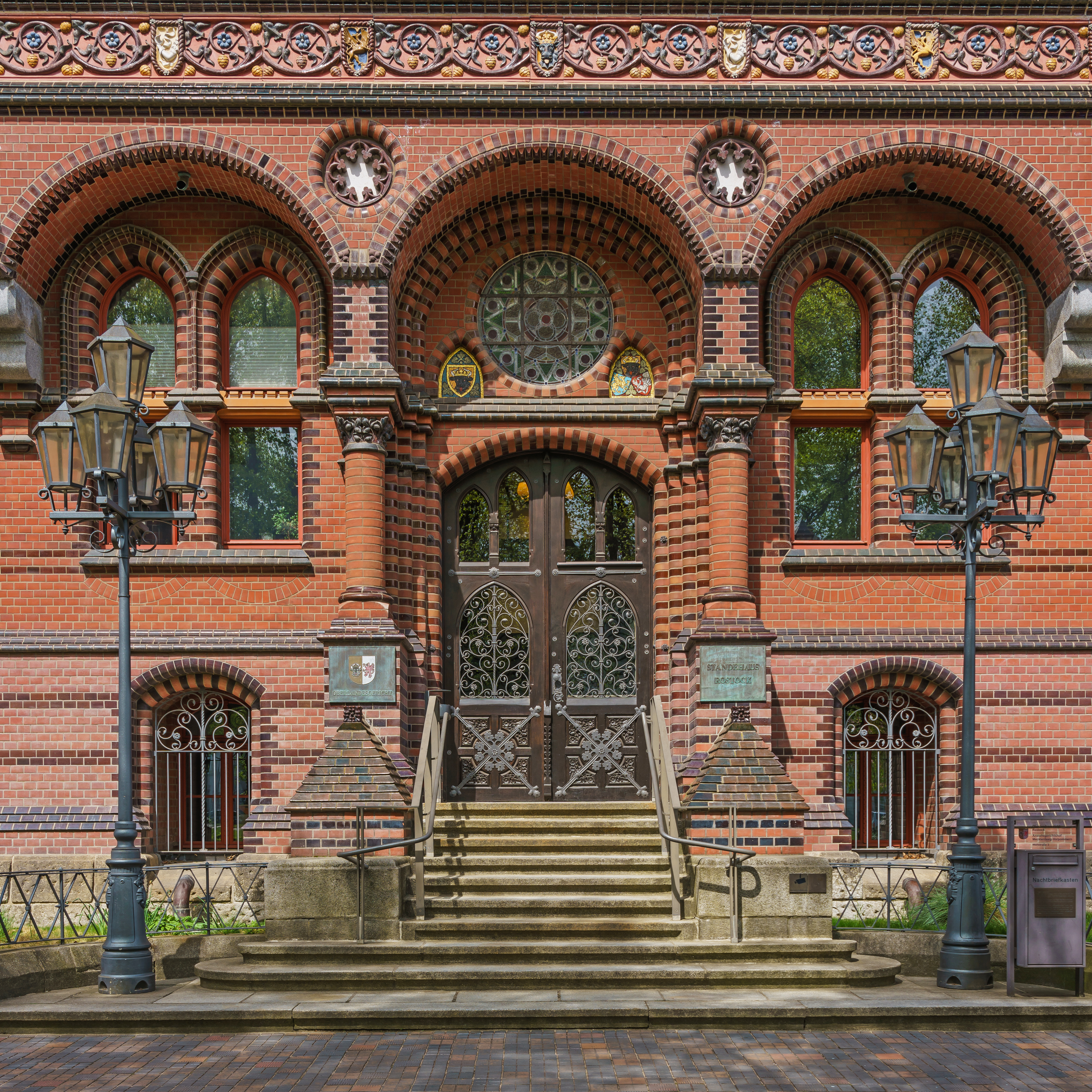 Courthouse in Rostock, Germany